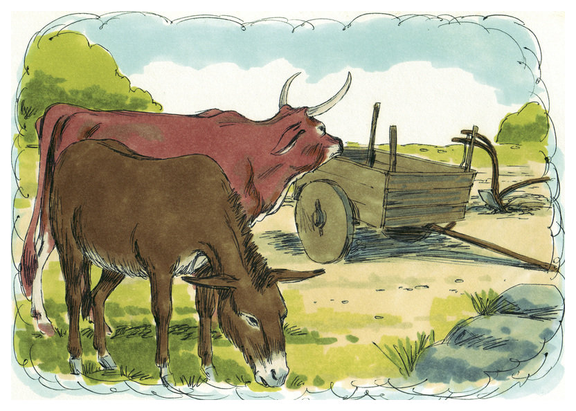 Biblical illustration of Book of Deuteronomy Chapter 6